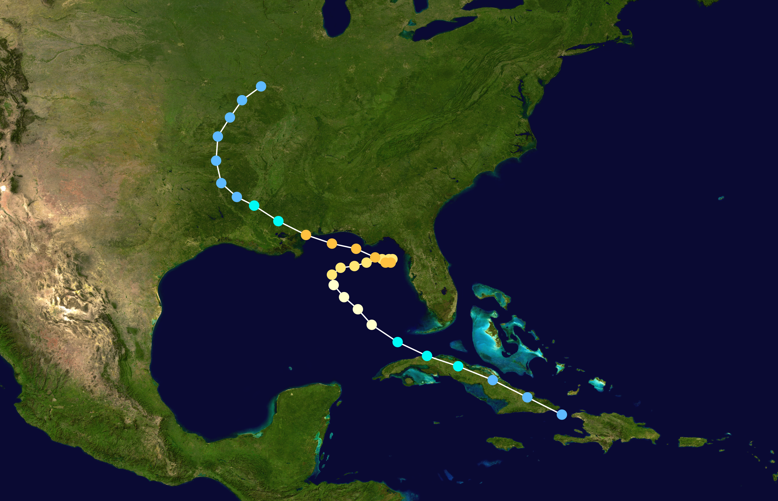 Hurricane Elena (1985) track. Uses the color scheme from the Saffir-Simpson Hurricane Scale.